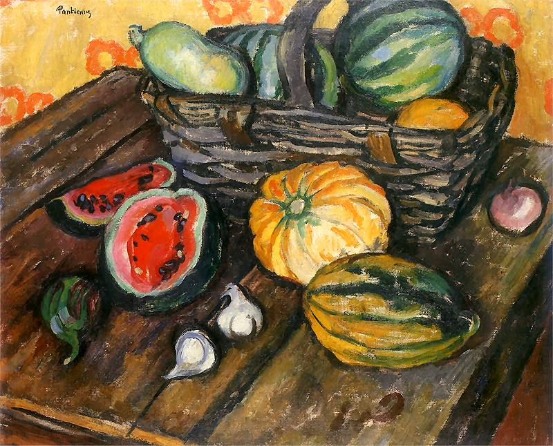 Still life with water-melons